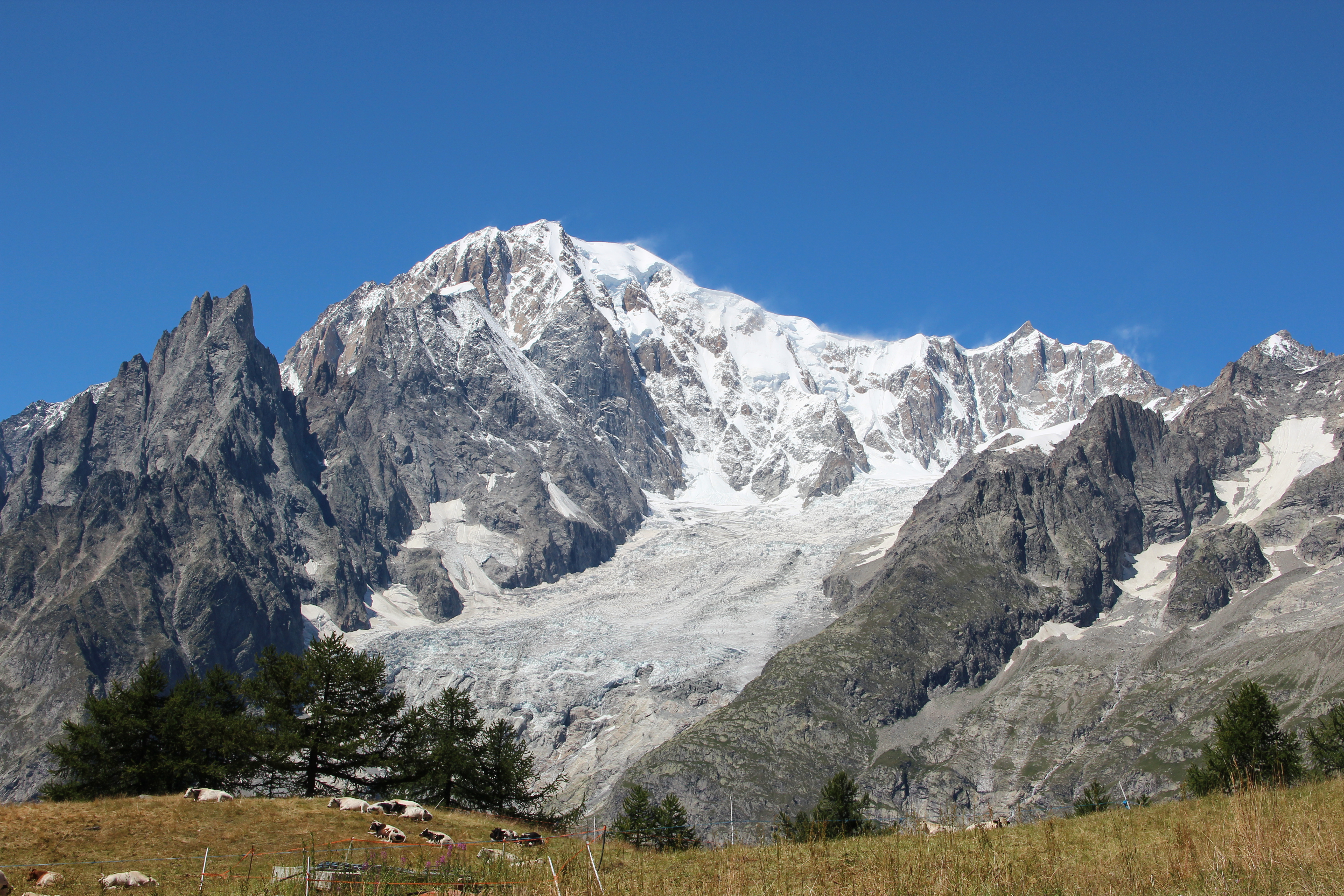 This is a photo of a monument which is part of cultural heritage of Italy.